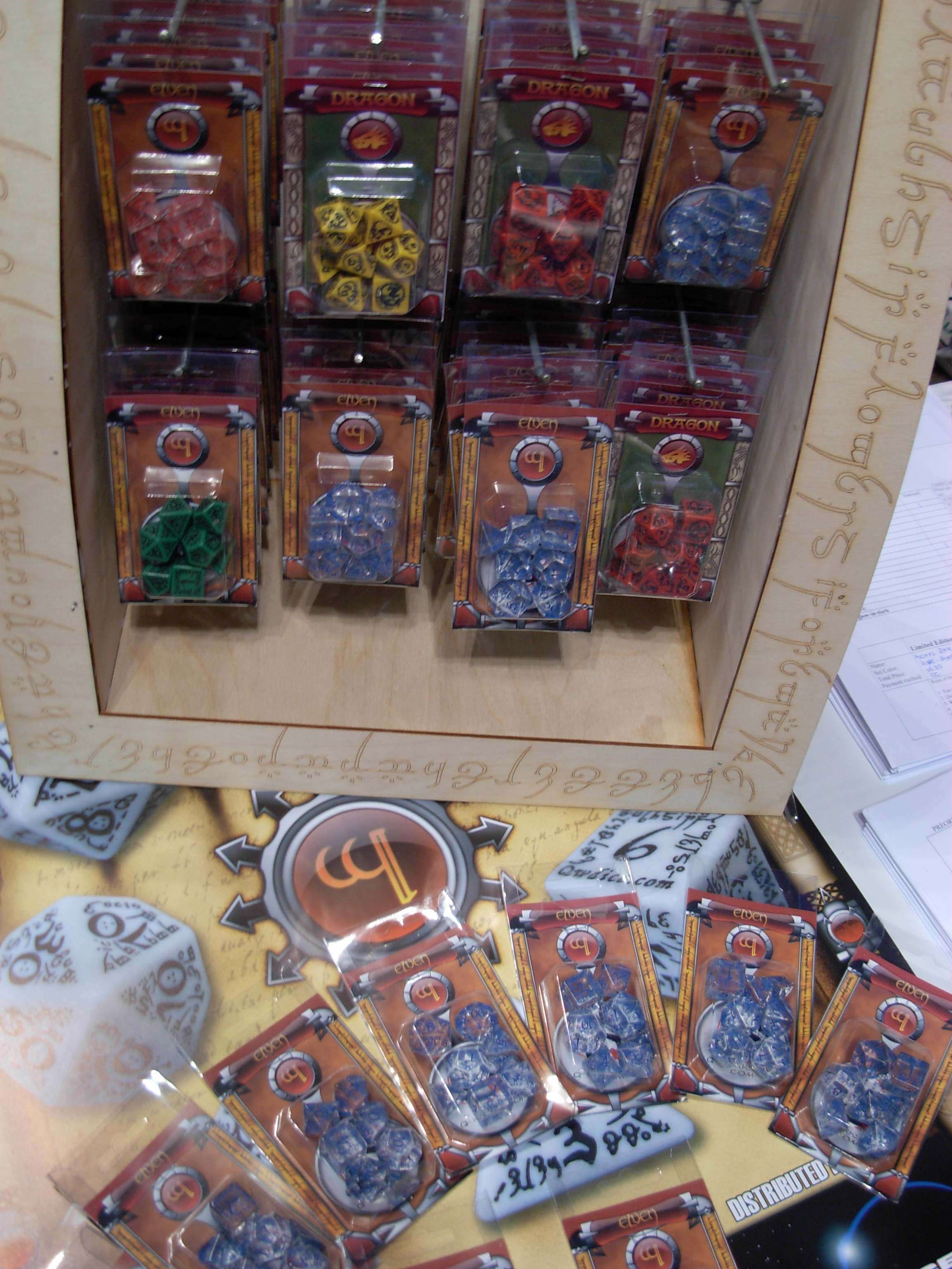 Photos from Gen Con Indy 2007. Selection of dice from Q-Workshop booth.